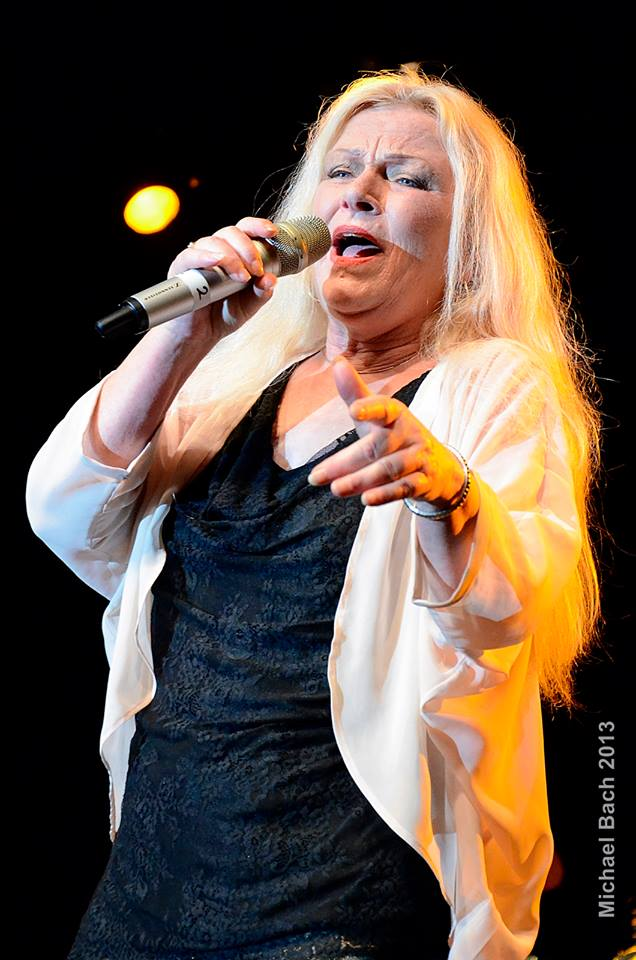 Colored photograph of Toni Willé standing onstage holding a mike. She has long blonde hair and is wearing a black top and off-white full sleeved top with grey pants.